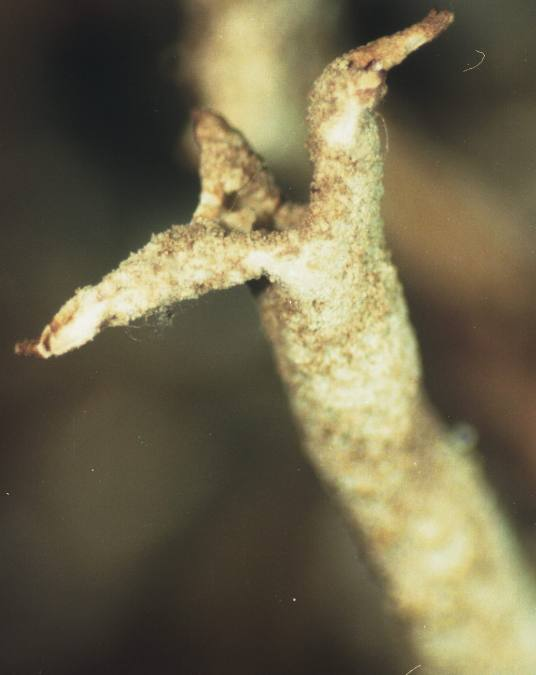 Cladonia farinacea (Vain.) A. Evans, 1950 Photograph of a herbarium specimen taken through a dissecting microscope (x20) showing the sorediate upper portion of a podetium. C. farinacea was growing on soil in a cemetery in Steuben, Washington County, Maine, USA (Lat. 44o31' N, Long. 67o58' W). Collected by E.C. Uebel, identified by Dr. David H.S. Richardson (No. U-193, 15 Jun 2001).